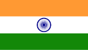 National flag of India